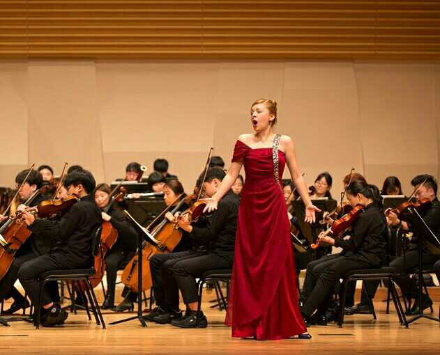 Katrina Krumpane in the Seongnam Arts Center Concert Hall (South Korea); Performing Puccini – La bohème – "Quando me'n vo" (Musetta's Waltz)